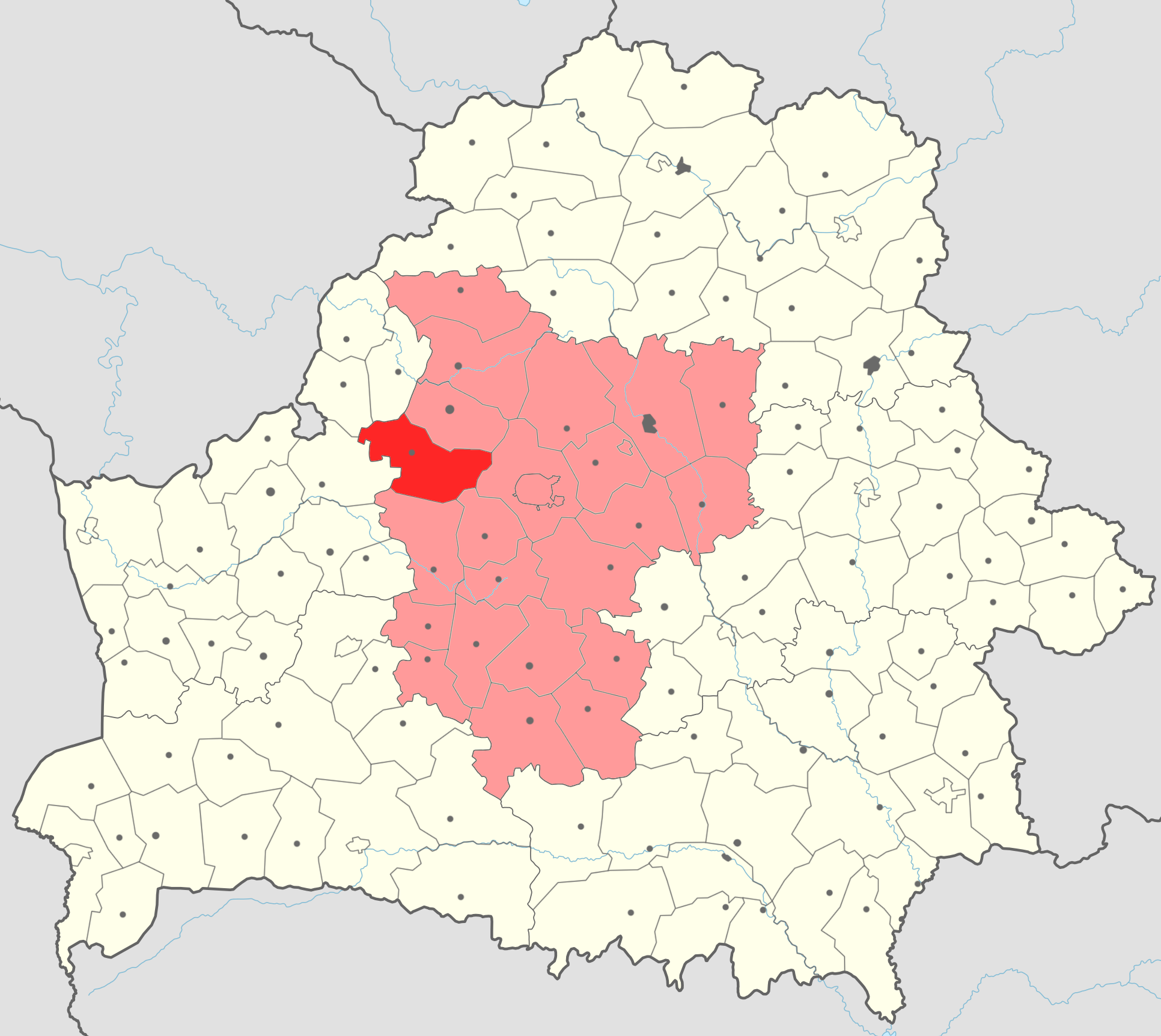 Map of Valožyn rayon (in red) with Minsk voblast' (in light red) on the map of Belarus.